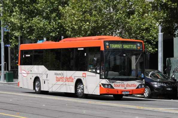 Bus rego 1024AO on Latrobe Street running on the free Melbourne City Tourist Shuttle